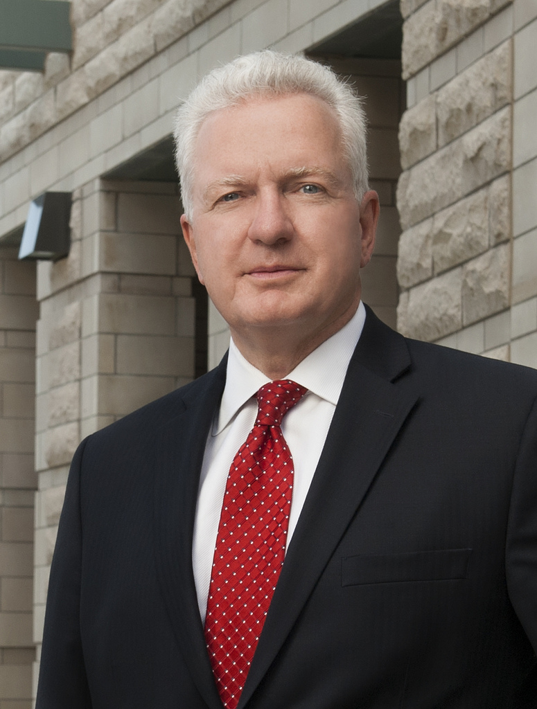 Dr. Brett Giroir